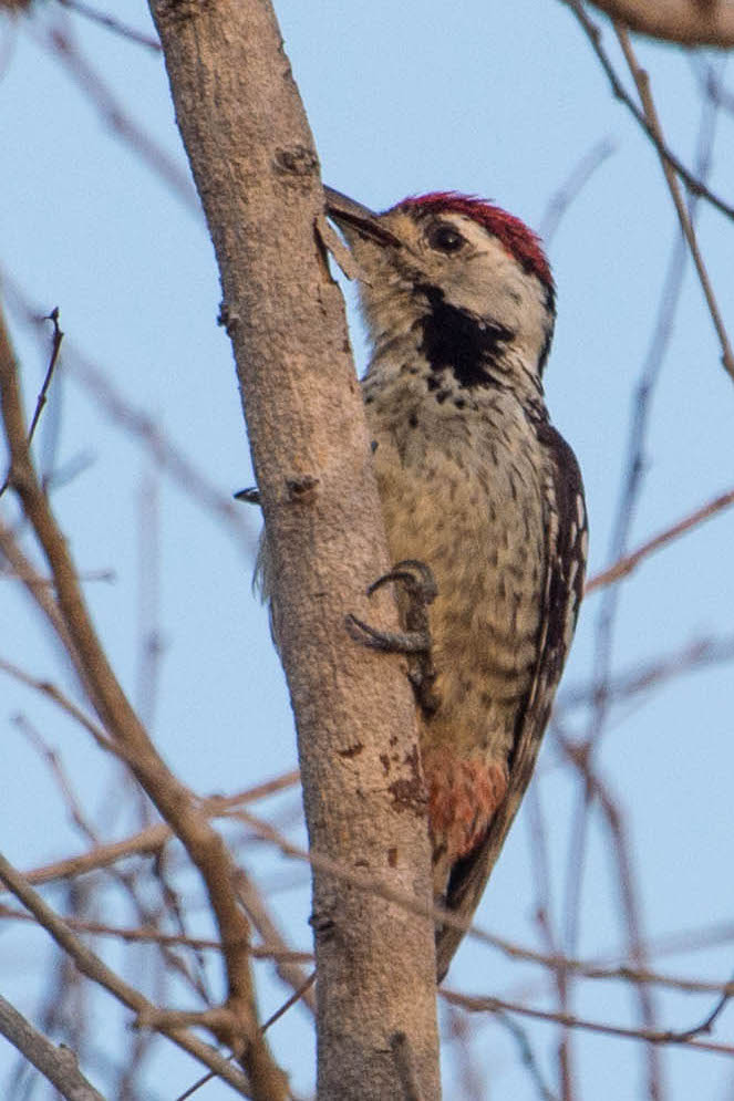 Freckle-breasted Woodpecker (Dendrocopos analis) at Nature Trail, Bueng Boraphet, Nakorn Sawan province, central ThailandBahasa Indonesia: Caladi ulam (Dendrocopos analis) di Nature Trail, Bueng Boraphet, Nakorn Sawan province, Thailand Tengah